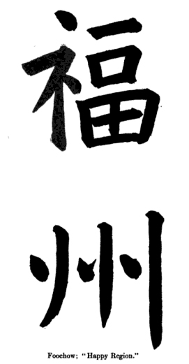 "Fuzhou" in Chinese Characters